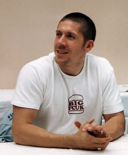 The British & Scottish actor, author and martial artist Ray Park at FedCon XI in Bonn, Germany 2003.